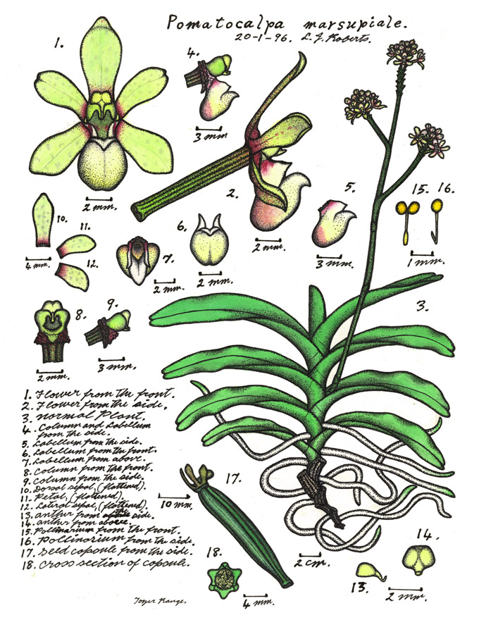 This image is one of a series by Lewis Roberts